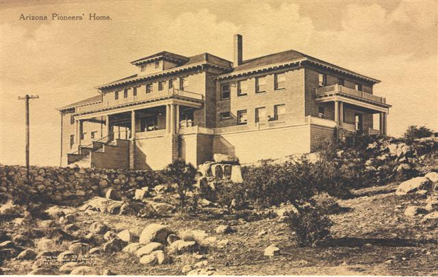 This is one of the oldest known photographs of the Arizona Pioneers' Home.